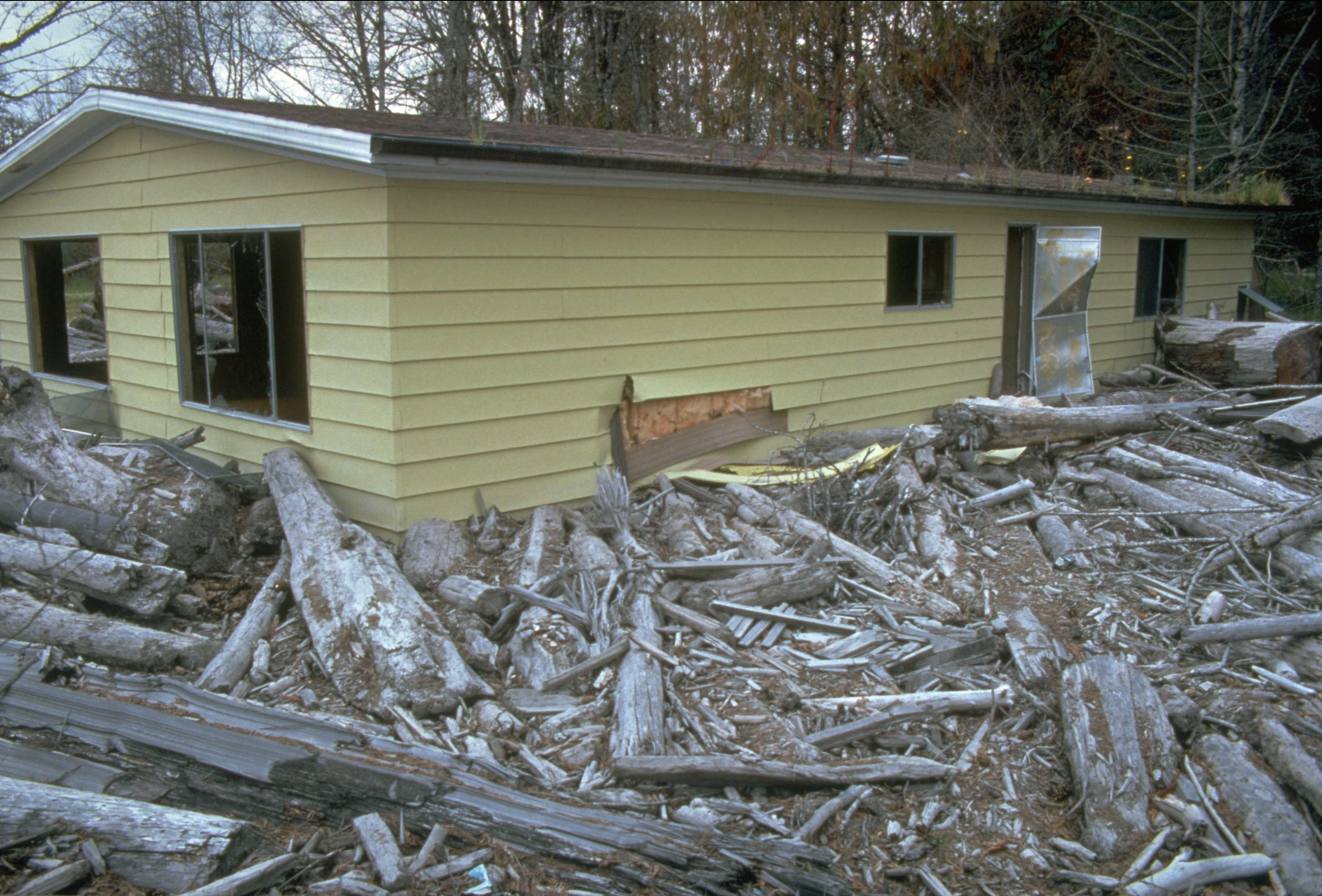 The May 18th, 1980 eruption of the Mount St. Helens created lahars, which in turn destroyed more than 200 homes and over 185 miles (300 kilometers) of roads. Pictured here is a damaged home along the South Fork Toutle River.